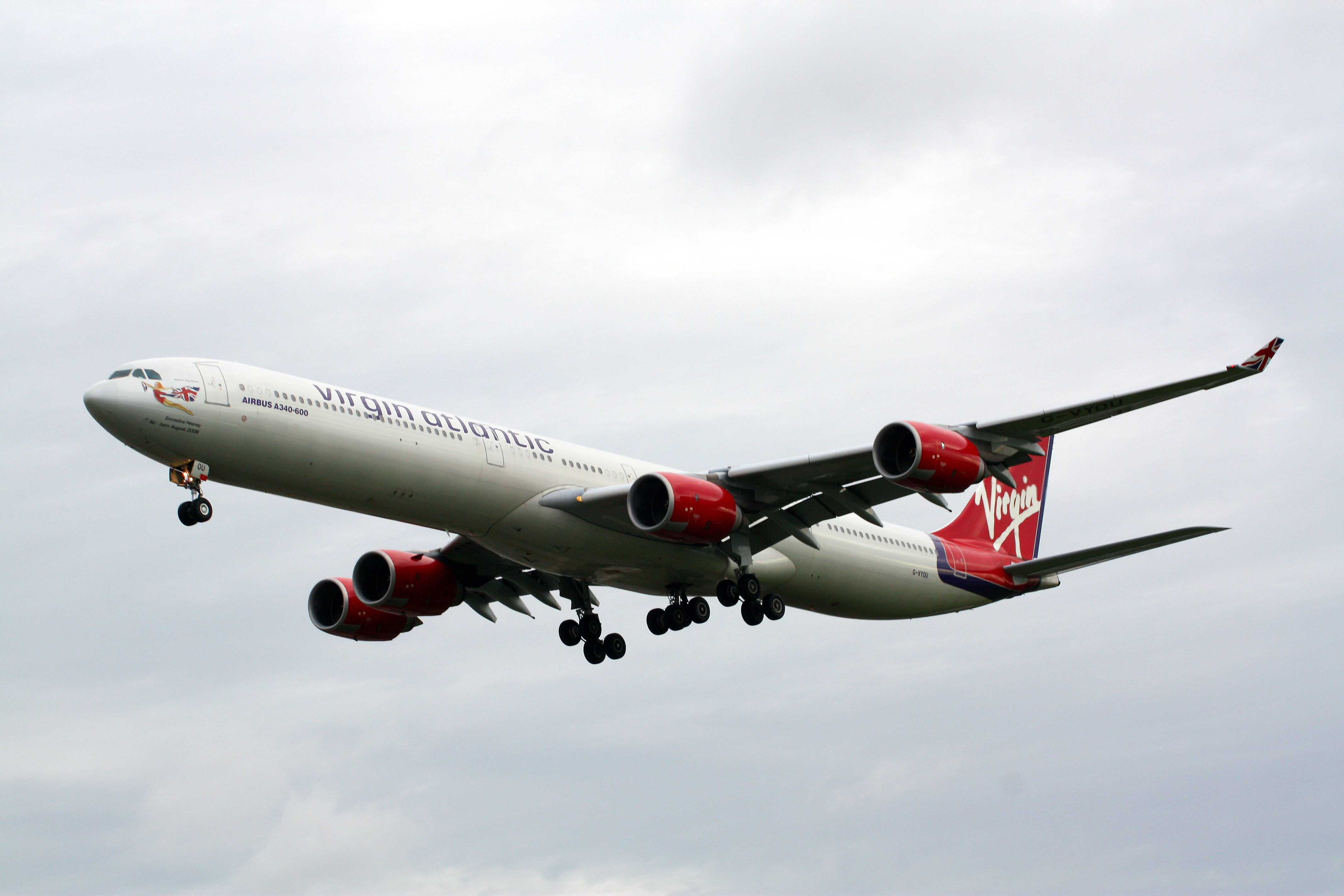 Virgin Atlantic A340-600 G-VYOU